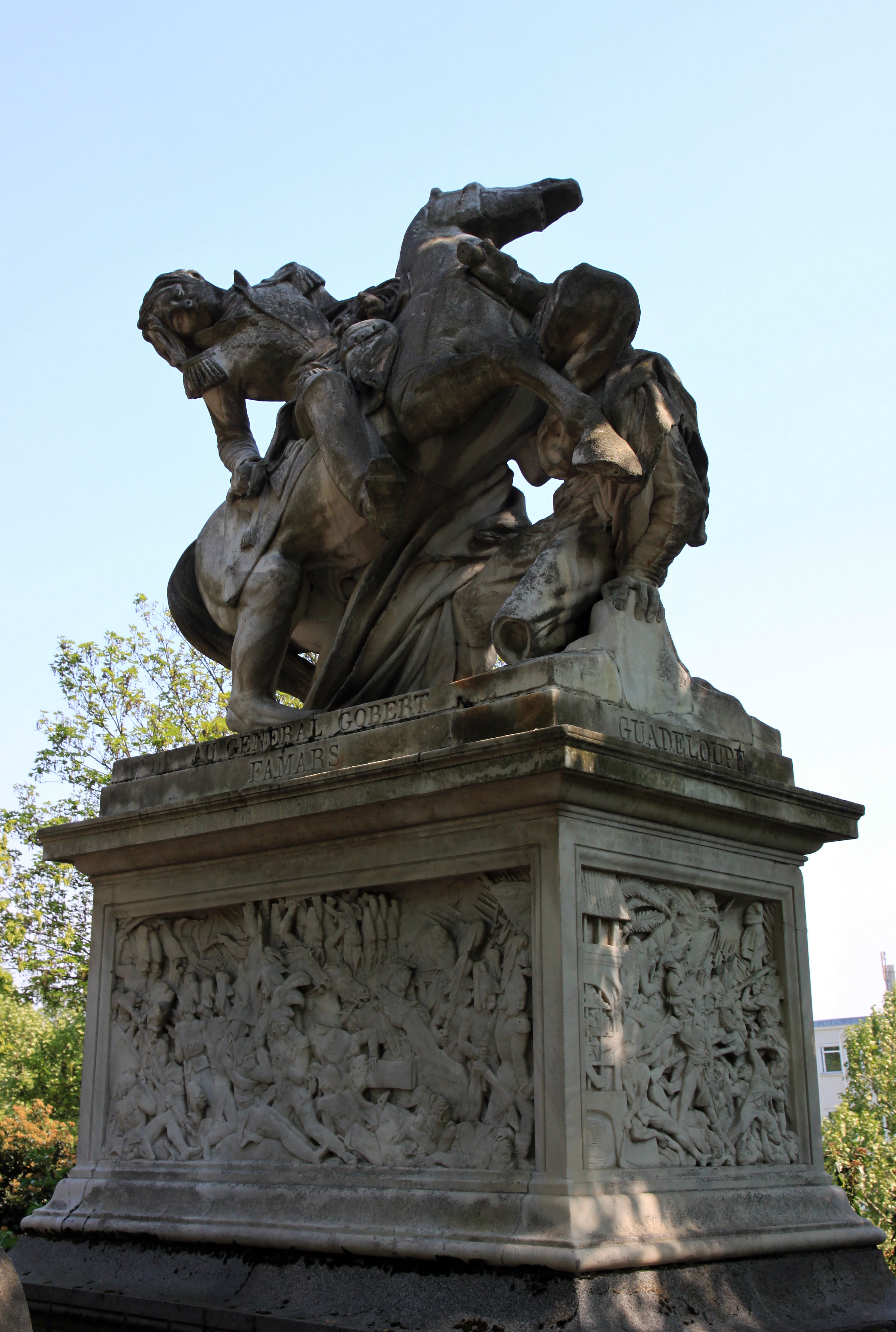 Tomb of Jacques Nicolas Gobert (1760-1808), by David d'Angers, Père Lachaise Cemetery (division 37), Paris.